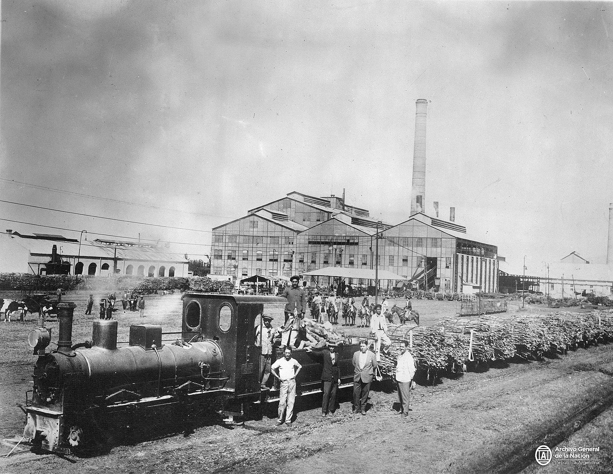 Narrow gauge steam locomotive in Argentina